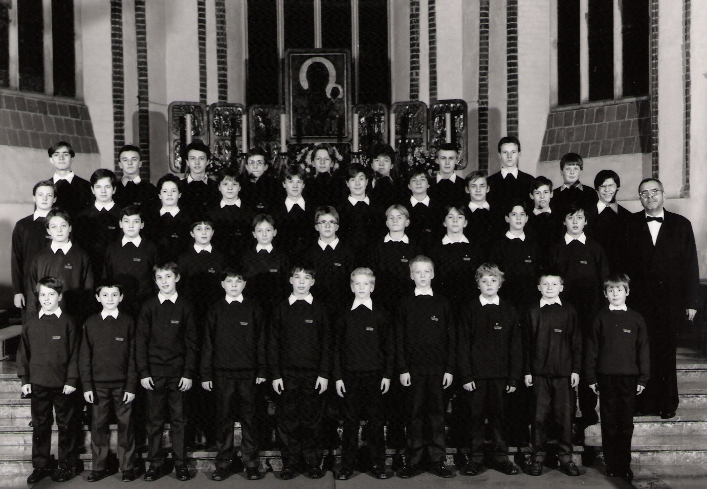 Cantores Minores - Warsaw Archdiocesan Cathedral Choir